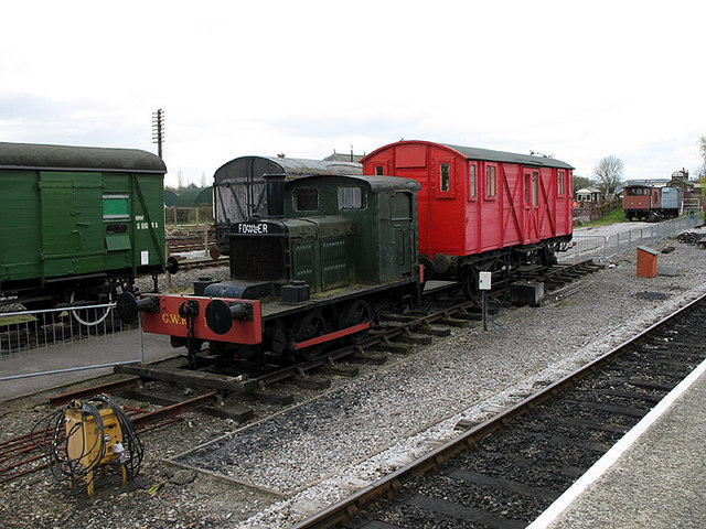 Fowler Shunter Diminuitive diesel (petrol?) mechanical shunter made by John Fowler and Co. in Leeds.